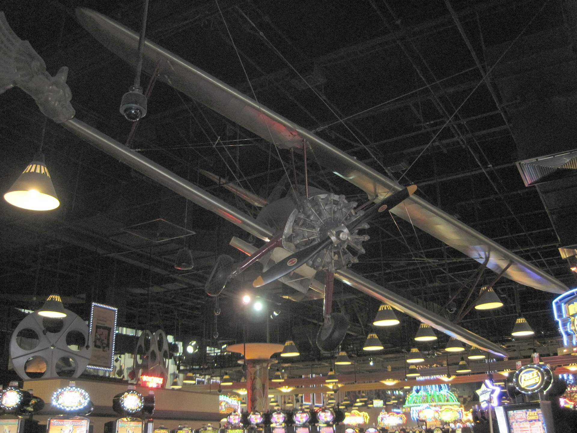 Hollywood Memorabilia Exhibit at the Hollywood Casino in Tunica, Mississippi. Crop dusting plane from the movie "North by Northwest"